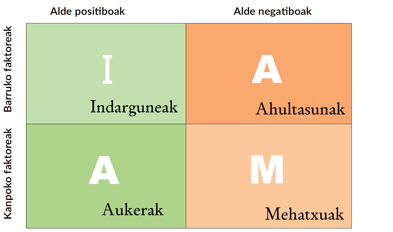 SWOT analysis